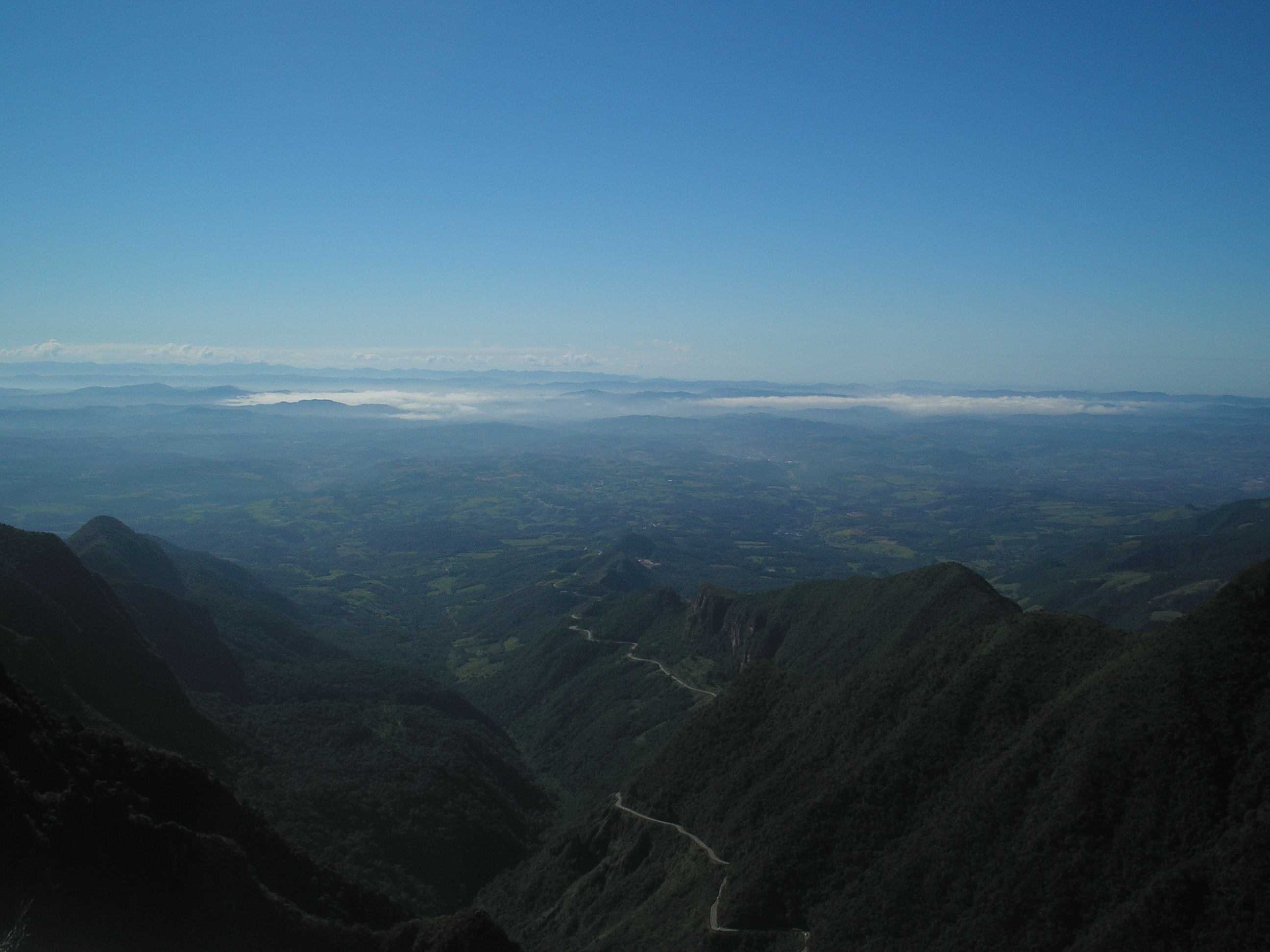 The Serra do Rio do Rastro (Mountain range of the River of the Track), seen from Bom Jardim da Serra, Santa Catarina, Brazil.